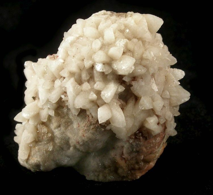 Calcite, Dolomite Locality: Tsumeb Mine (Tsumcorp Mine), Tsumeb, Otjikoto (Oshikoto) Region, Namibia (Locality at ) Size: 4.4 x 4.2 x 2.4 cm. Pearlescent, dogtooth calcite crystals richly cover the rind of dolomite on this fine mounded specimen from the Tsumeb Mine. Ex. Rob Smith Collection.